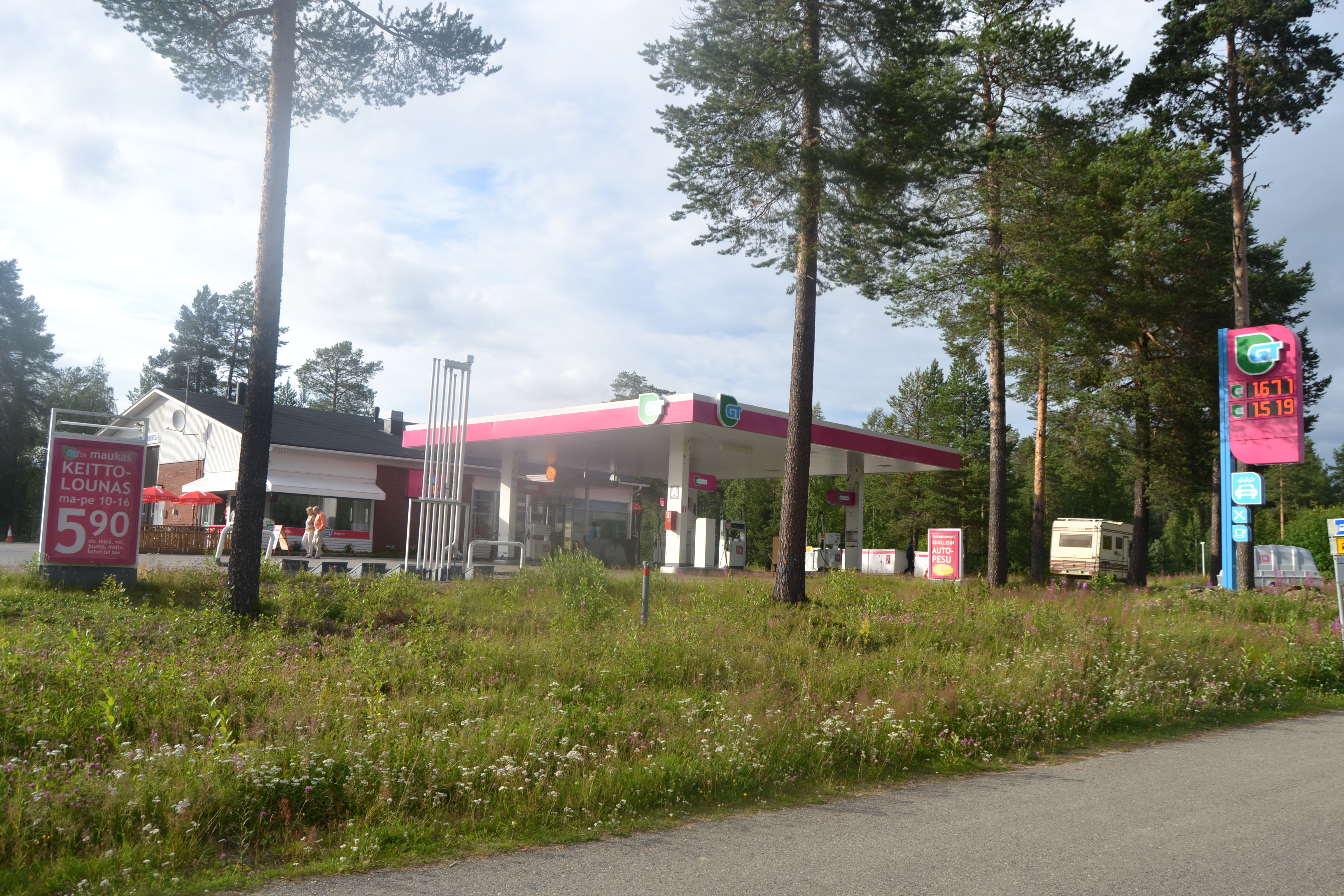 GT petrol station in Sodankylä, Finland